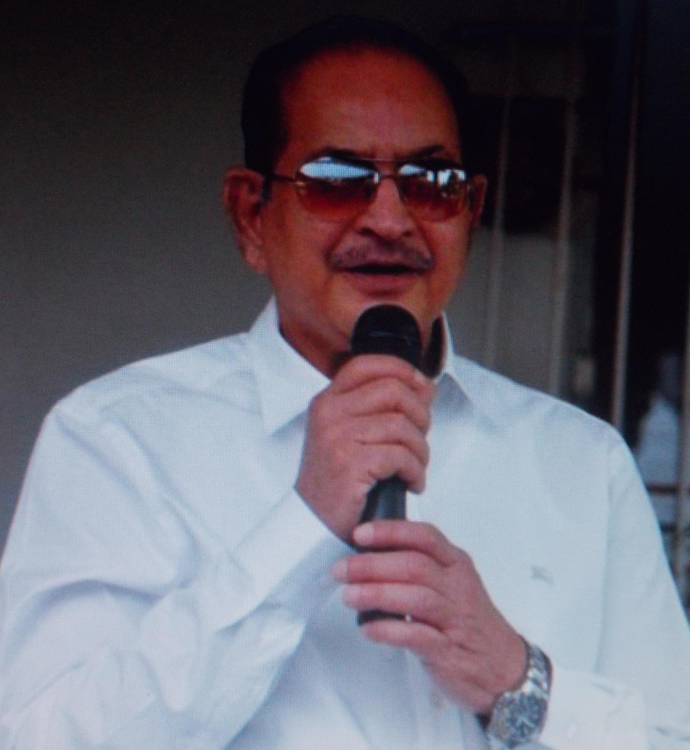 actor krisha at adurthi subba rao book launch